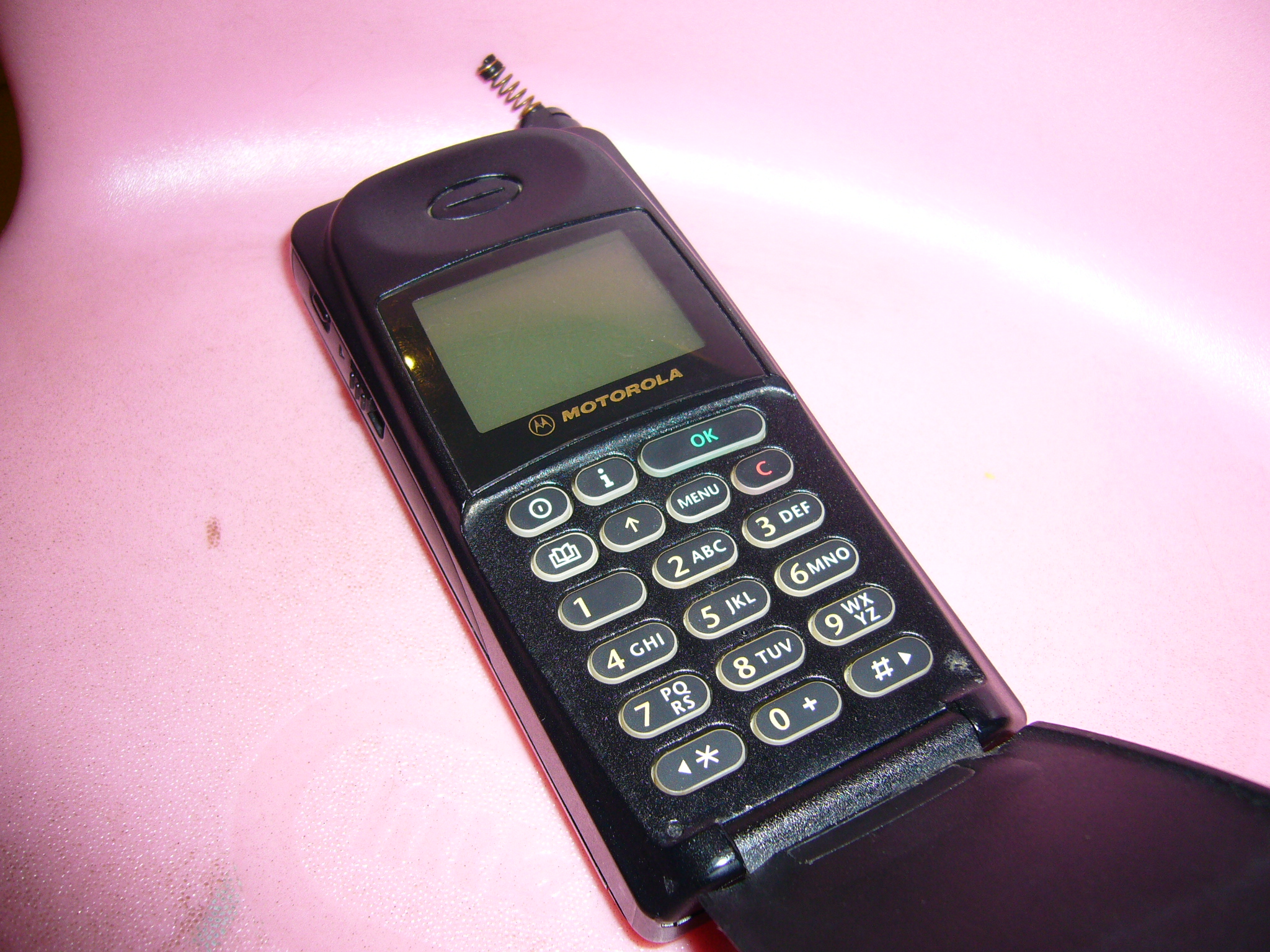 A 1994 MicroTAC International 8700 with the flip open.